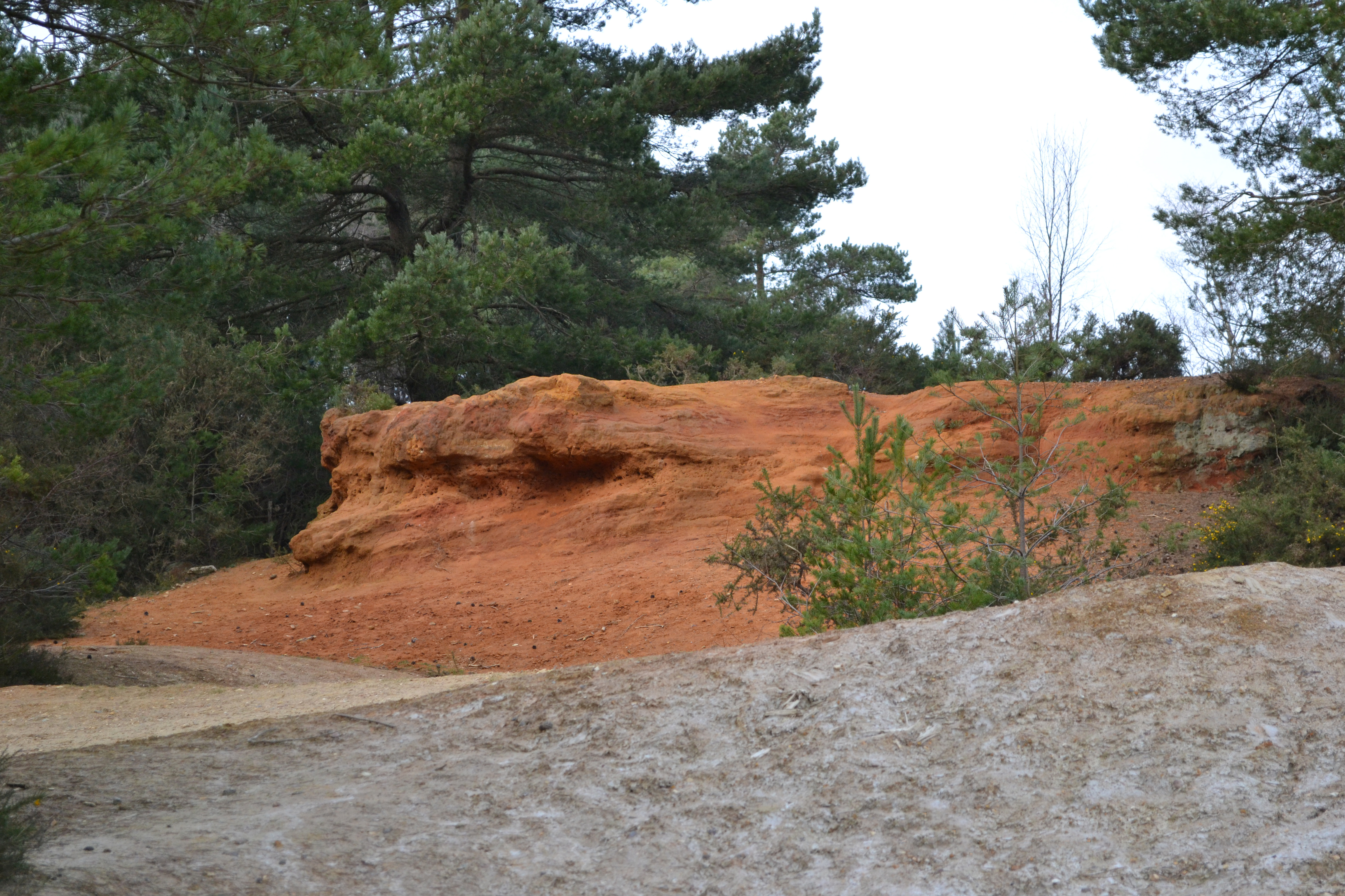 Sandstone formation at the bottom of a disused quarry on St Catherine's Hill in the borough of Christchurch, Dorset.